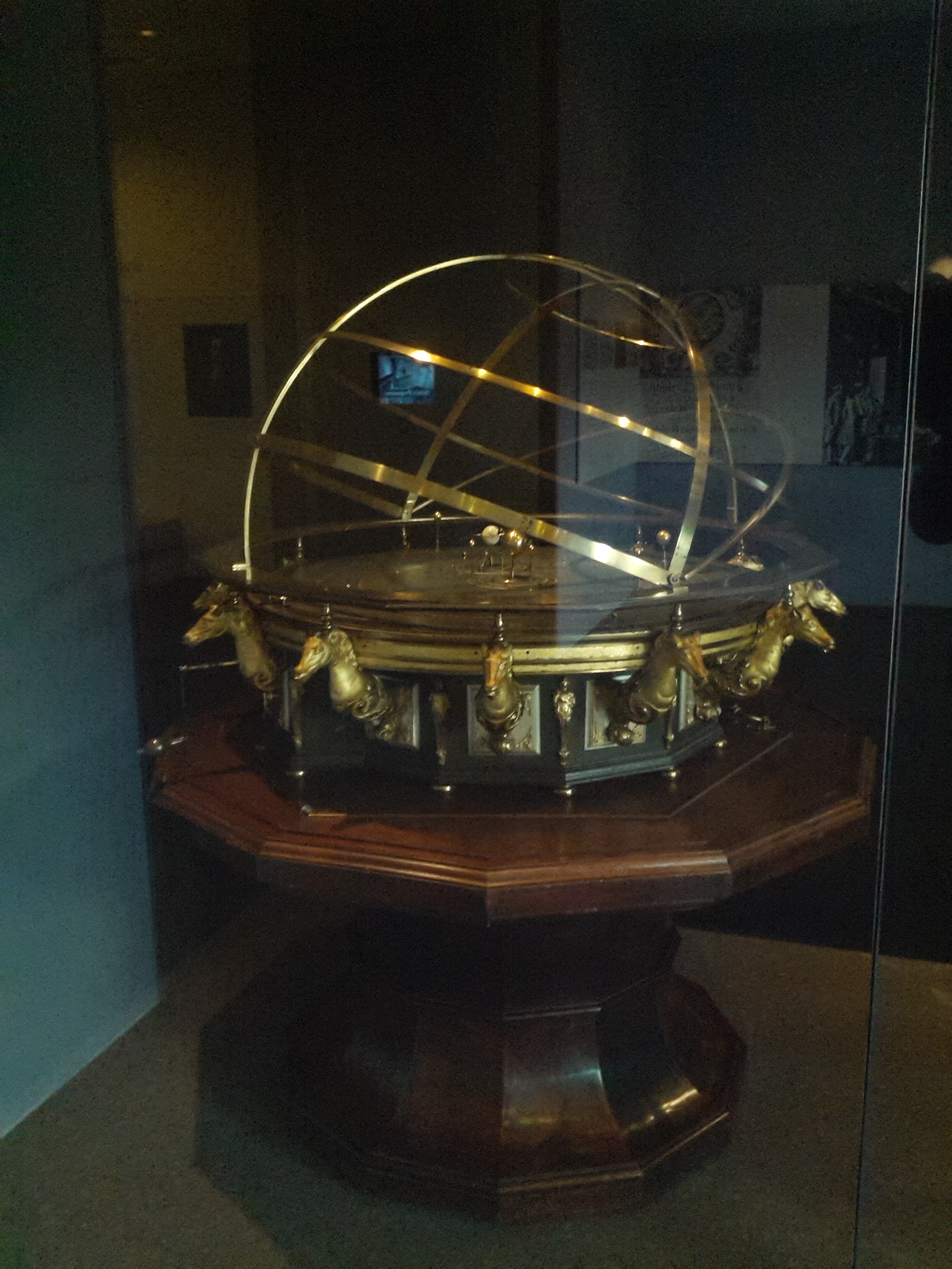 Enlarged in 1733 by Thomas Weight. on display at The Science Museum.